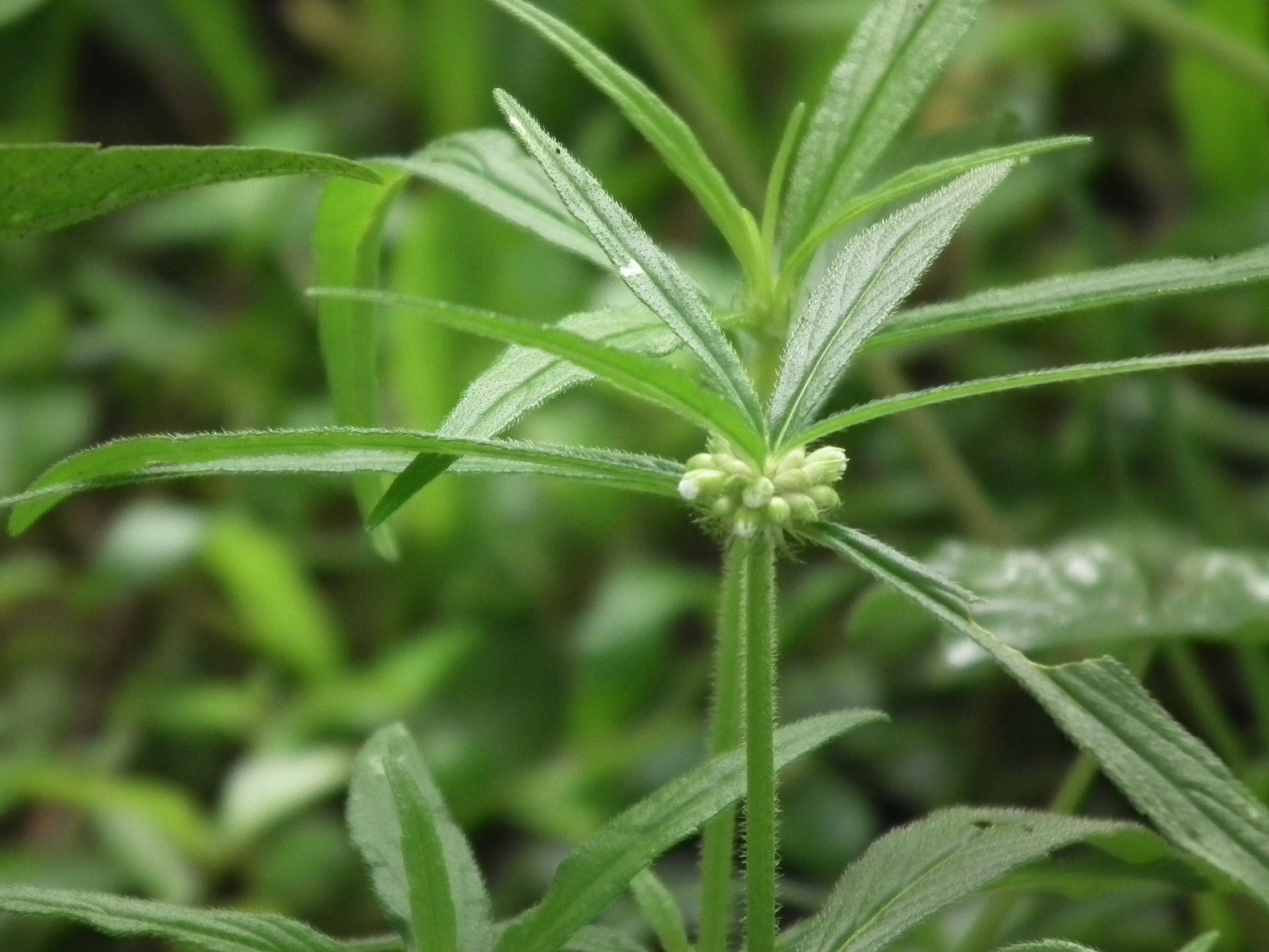 Leucas aspera (ml: thumpa or thumba) from Kerala